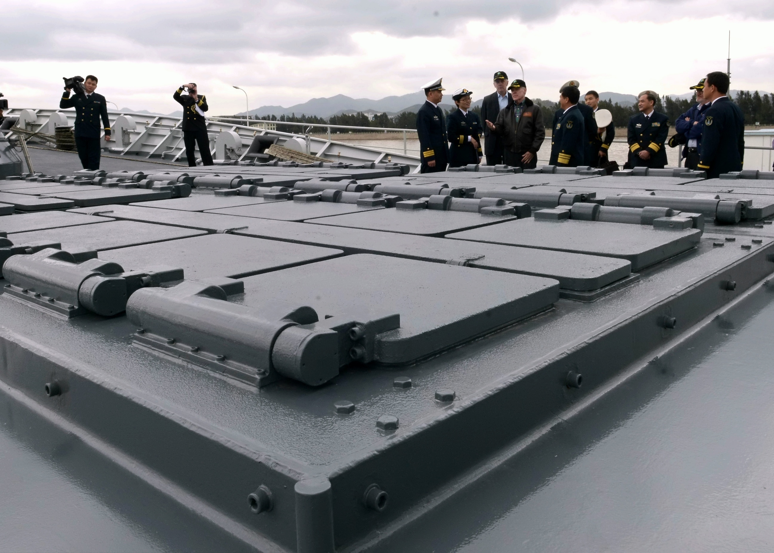 HQ-16 VLS SAM Launchers on Type 054A Frigate Xuzhou